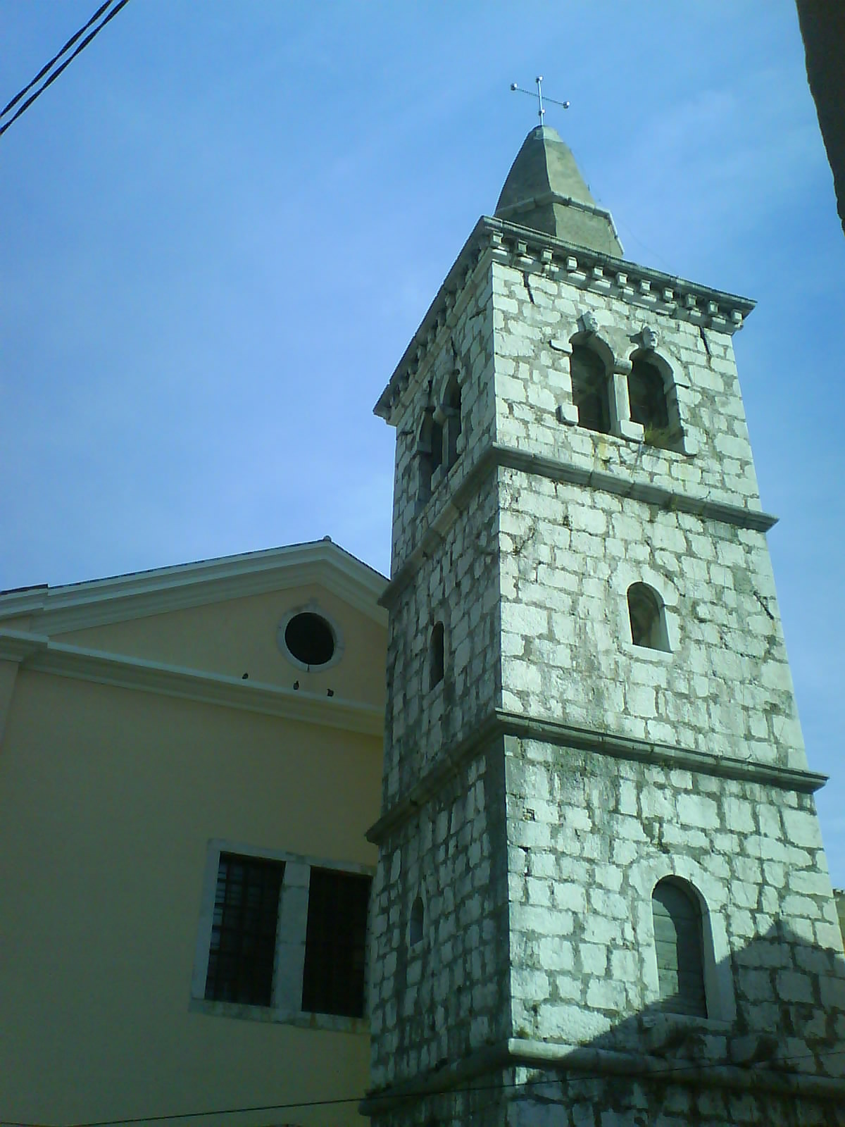 The church of Sv. Andrije Apostola